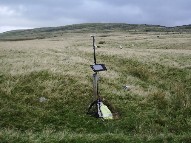 Leica RTK with finger post Co-ords Easting 312980.07 Northing 490647.13 A bit heavier to carry around than these hand held gps instruments but a darn sight more accurate, down to the cm in fact